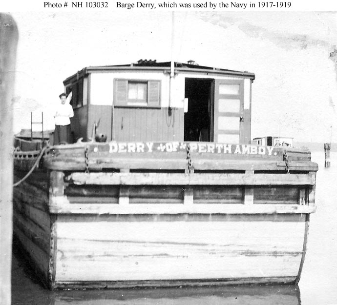 The barge Derry, which served as United States Navy barge USS Derry (ID-1391) from 1917 to 1919, probably photograph at the time of her inspection for possible U.S. Navy service.